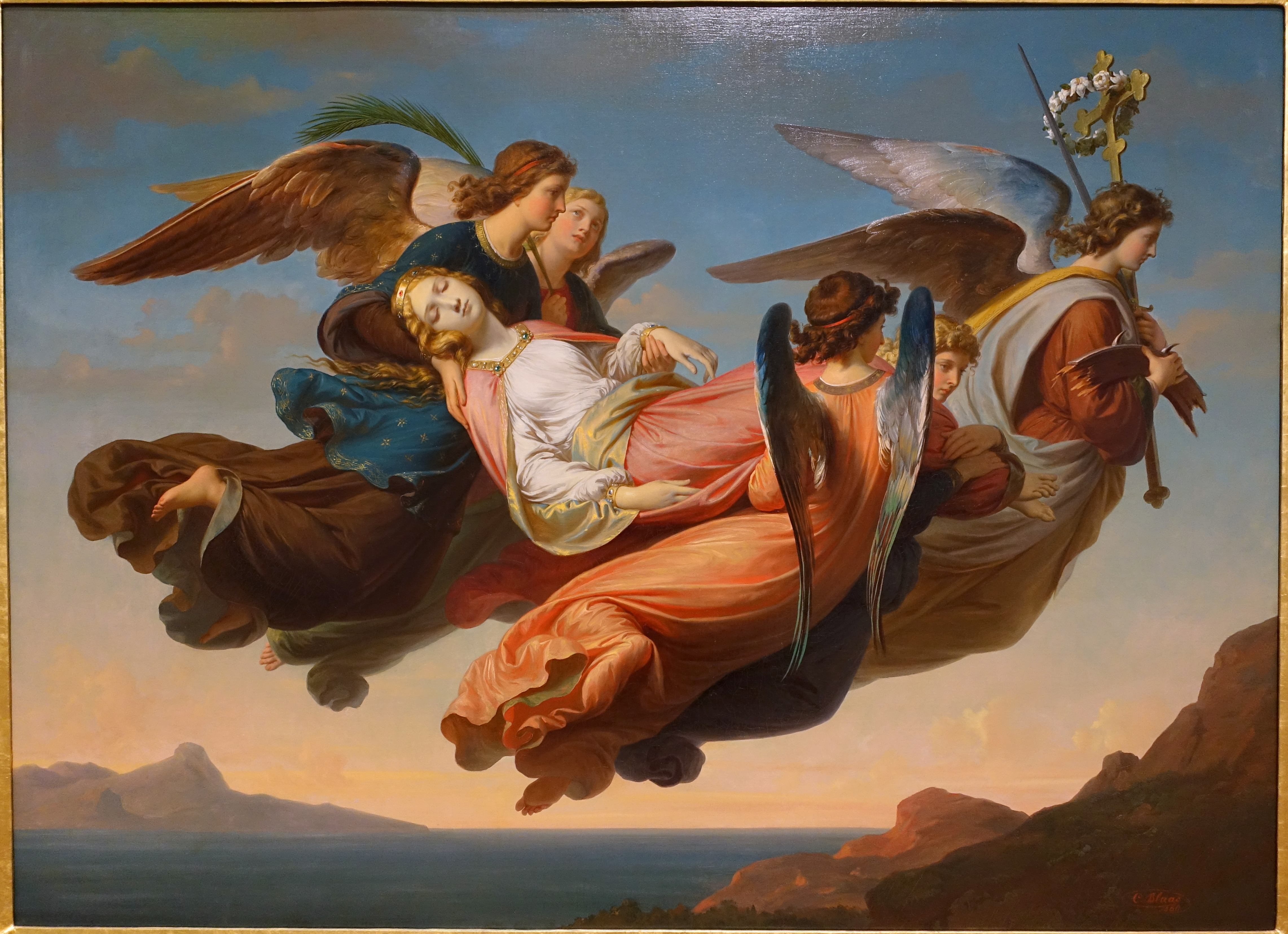 Exhibit in the Fogg Art Museum, Harvard University, Cambridge, Massachusetts, USA. This artwork is in the public domain because the artist died more than 70 years ago.